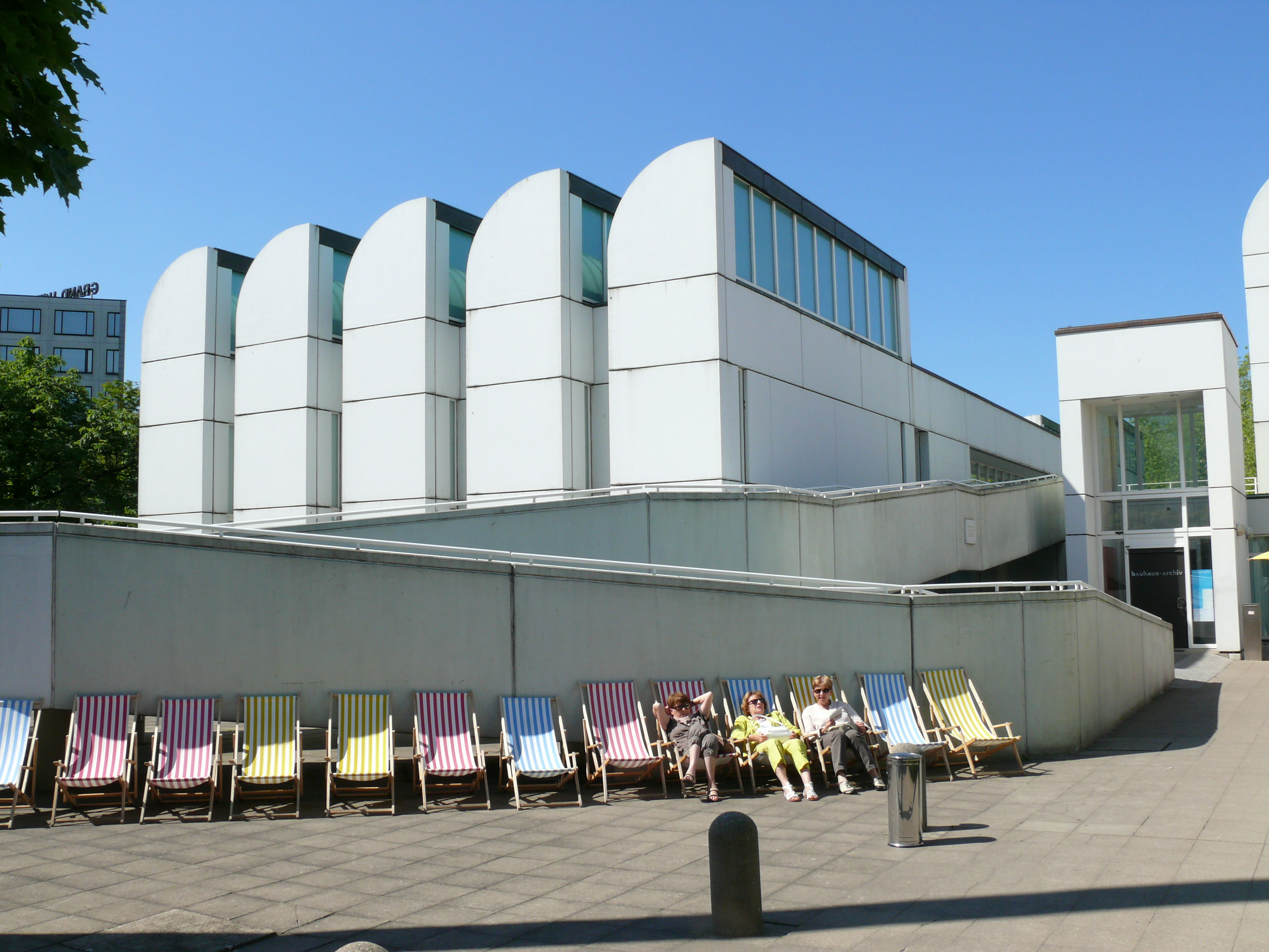 Berlin-Tiergarten Bauhaus-Archiv